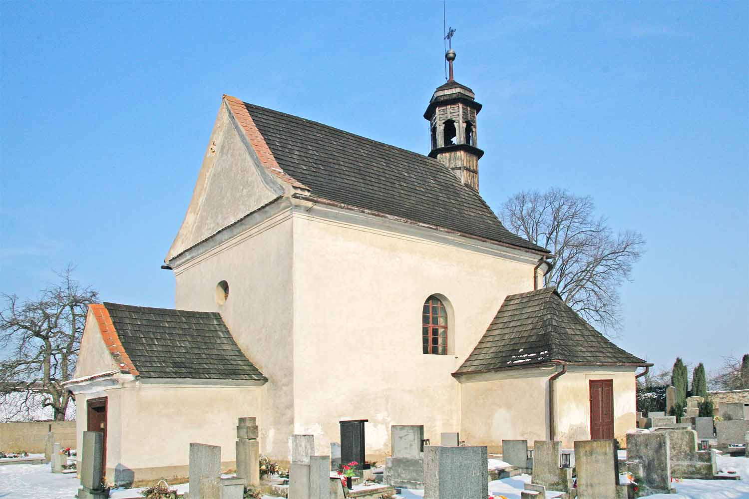 Originally Romanesque church of Saint John the Baptist in Semín, Pardubice District, Czech Republic